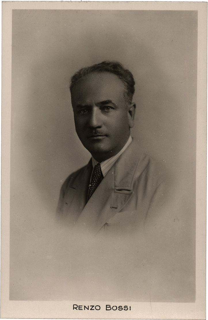 Portrait of Renzo Bossi, composer (1883-1965). Photo by unknown, before 1965.